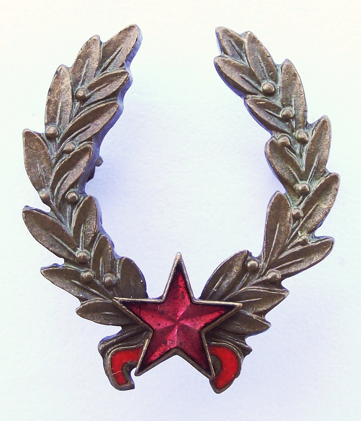 State Prize of the Hungarian People's Republic. Third degree (Bronze), 1966. Laurate: Zátonyi Sándor.